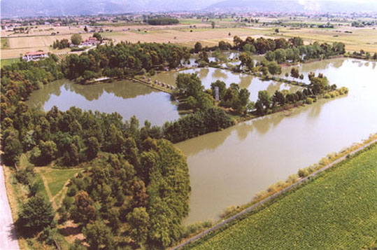 Laghi Malvaldo di Titignano (Cascina,Pisa)